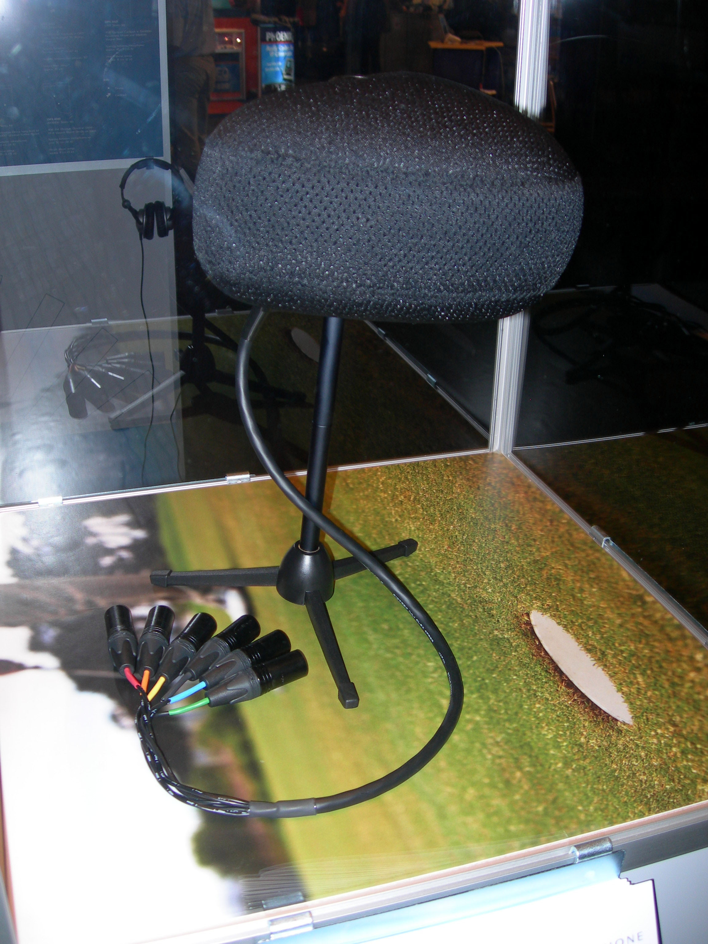 DPA 5100 Mobile Surround Microphone; IBC 2008, Amsterdam